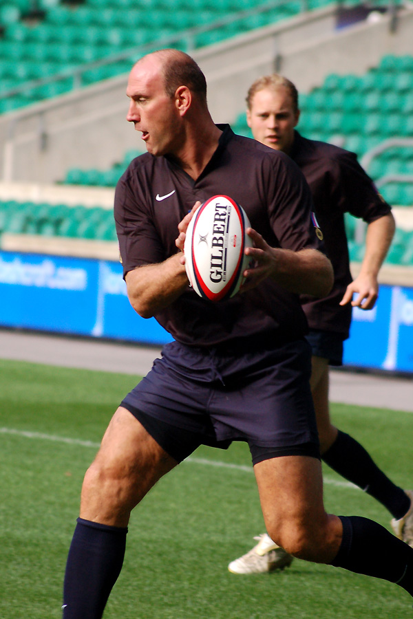 Lawrence Dallaglio